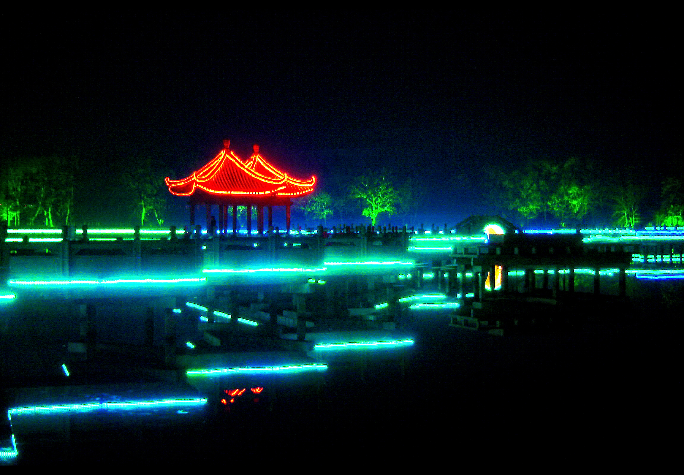 Ci Lake is the northern most section of the larger Qingshanhu 青山湖.